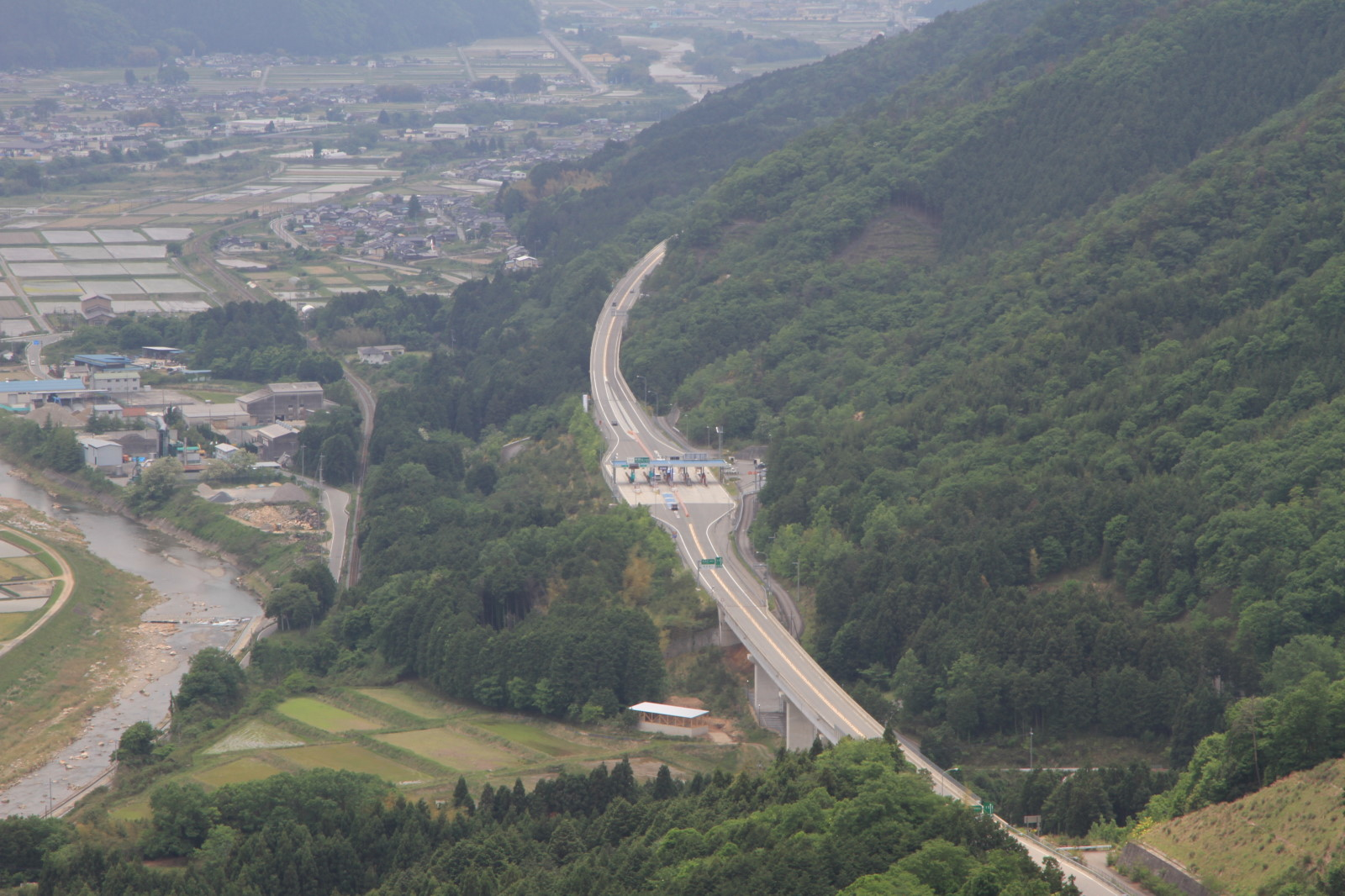 Wadayama toll barrier Hyogo, Japan